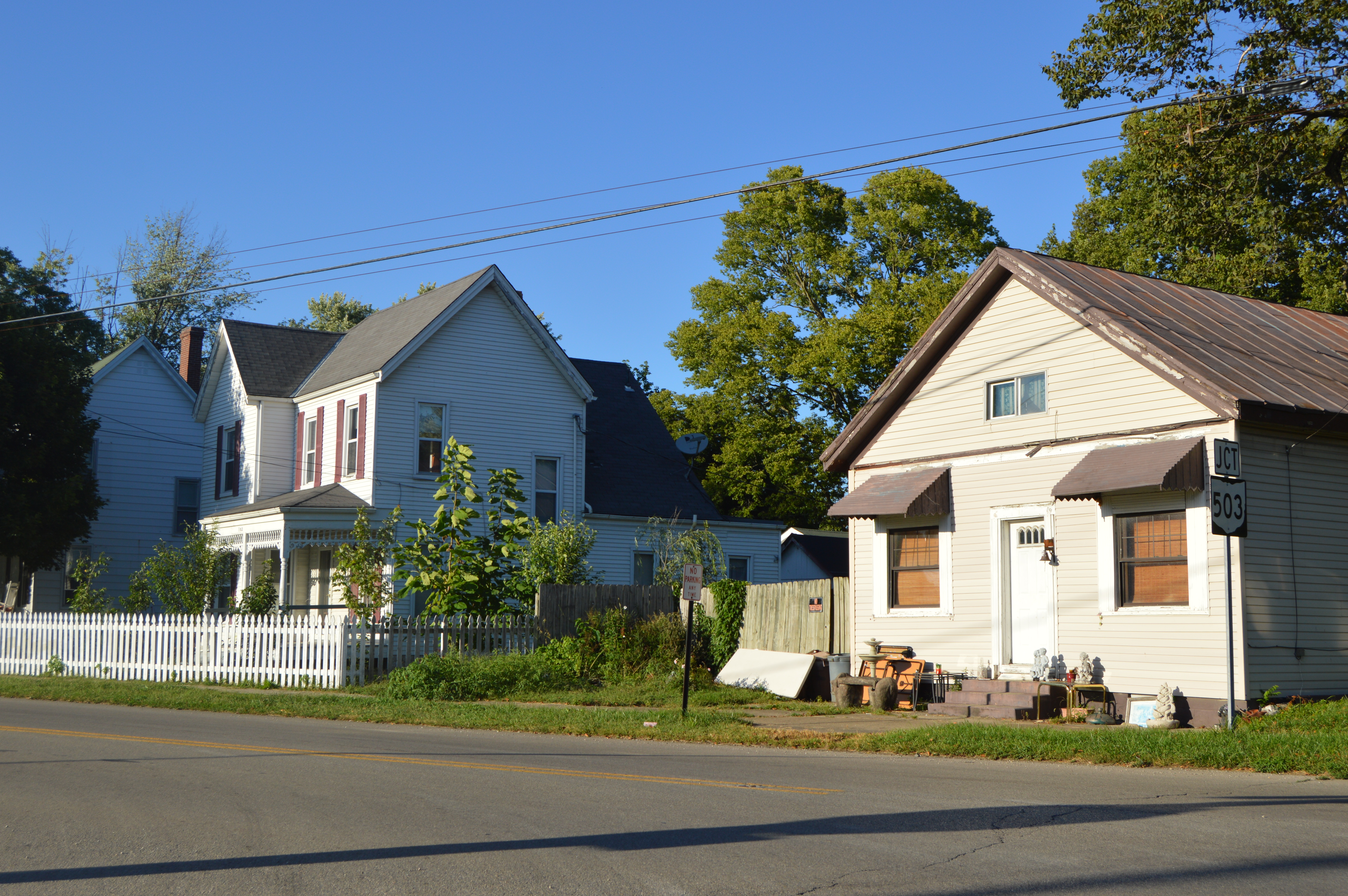 Houses on Main Street (U.S. Route 127) at the Ritter Street intersection in Seven Mile, Ohio, United States.